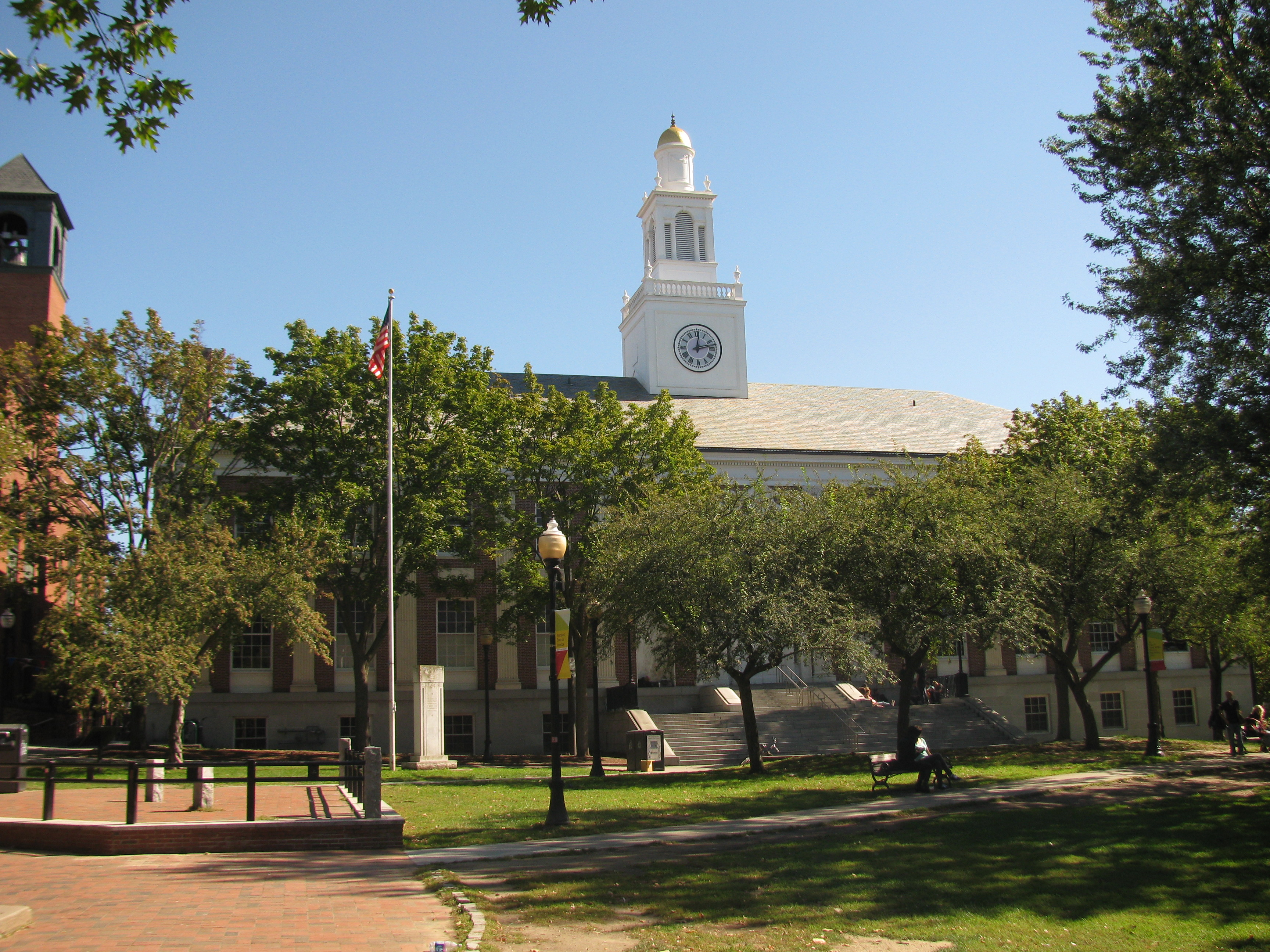 City Hall of Burlington, Vermont, United States.